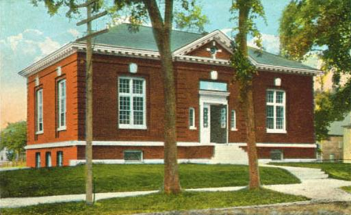 Captain John Curtis Memorial Library, Brunswick, Maine. Construction on the building began in 1903 and was completed in 1904.